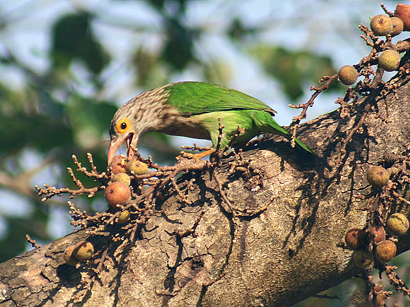 Lineated Barbet Megalaima lineata in Kolkata, West Bengal, India.